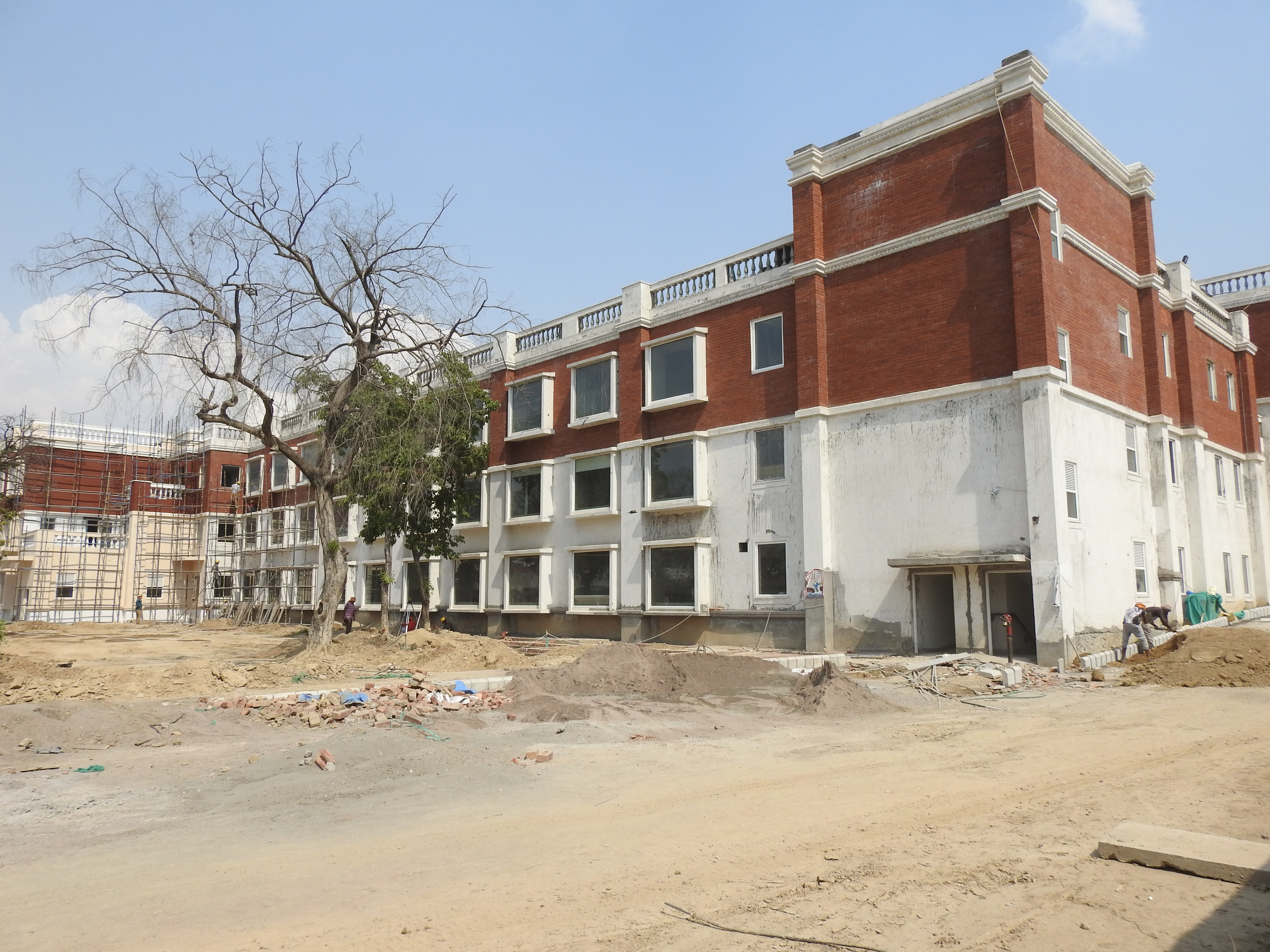 Sandhanwalia Haveli is the palace built by the he Sandhawalias - the rulers of Rajasansi . The Haveli was the residence of the erstwhile Sandhanwalia family. It is situated near the Ajnala town , 1 km northwest of Amritsar, on the Amritsar Ajnala Road. Rajasansi was founded in the year 1570 A.D. by one Raja, a Jat of the Sansi tribe, and hence the town was named after him. The Haveli is a majestic building of historical significance which is proposed to be renovated as a tourist site.